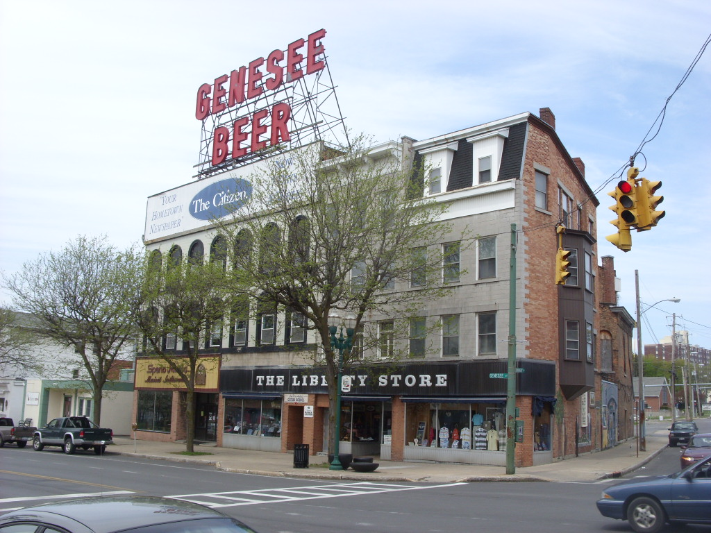 Downtown Auburn, New York